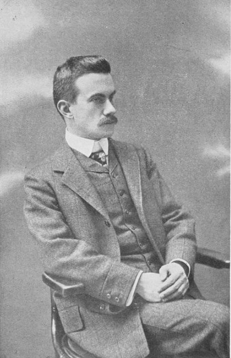 Prof. Dr. Miroslav Čačković-Vrhovinski